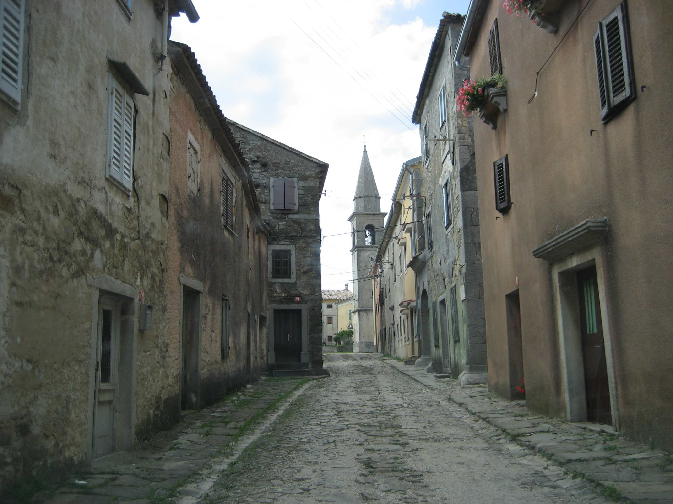 Village Draguc, northwest Croatia